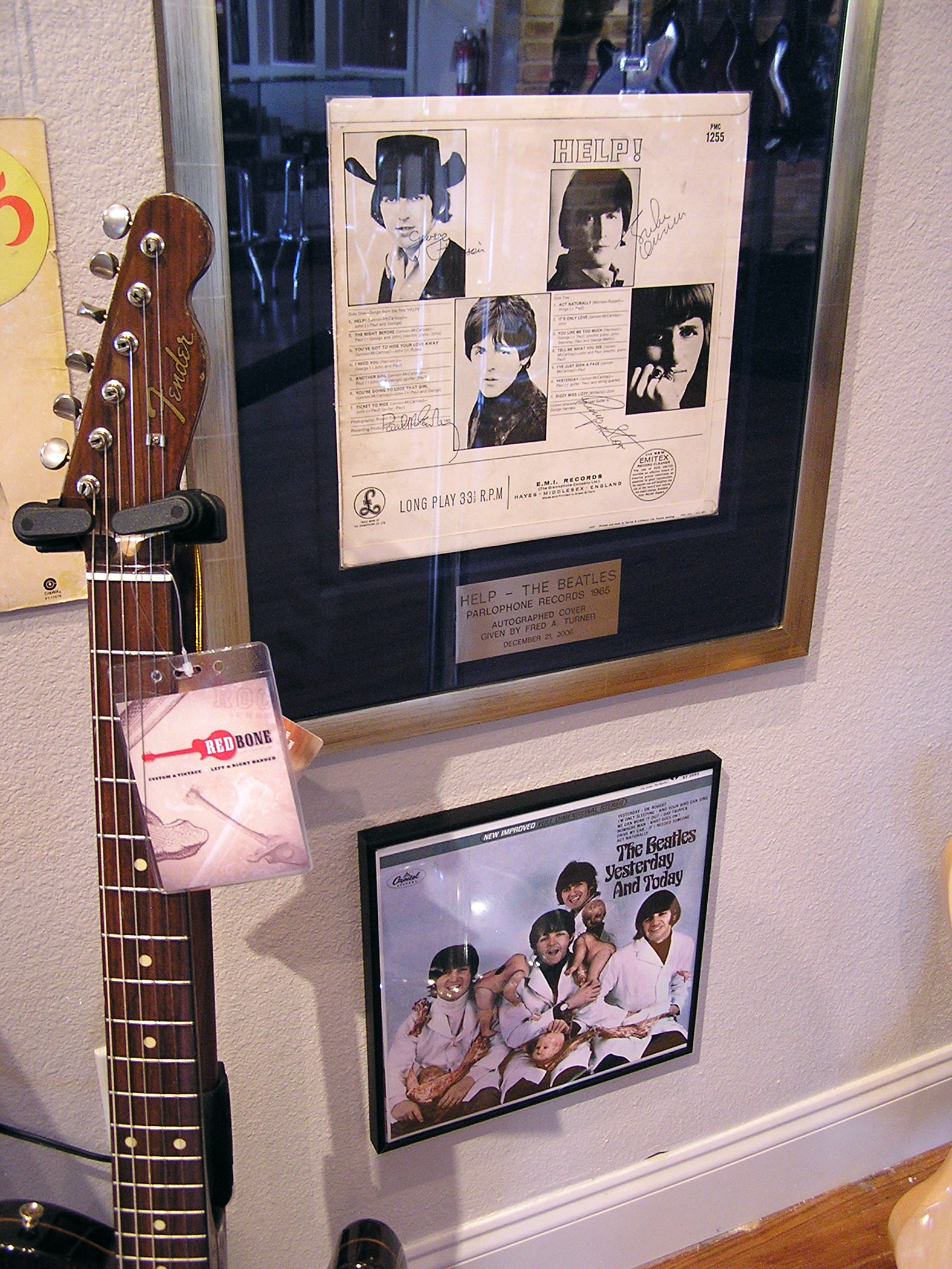 A hand signed "Help" LP right above an ultra rare Butcher Block (White Album).